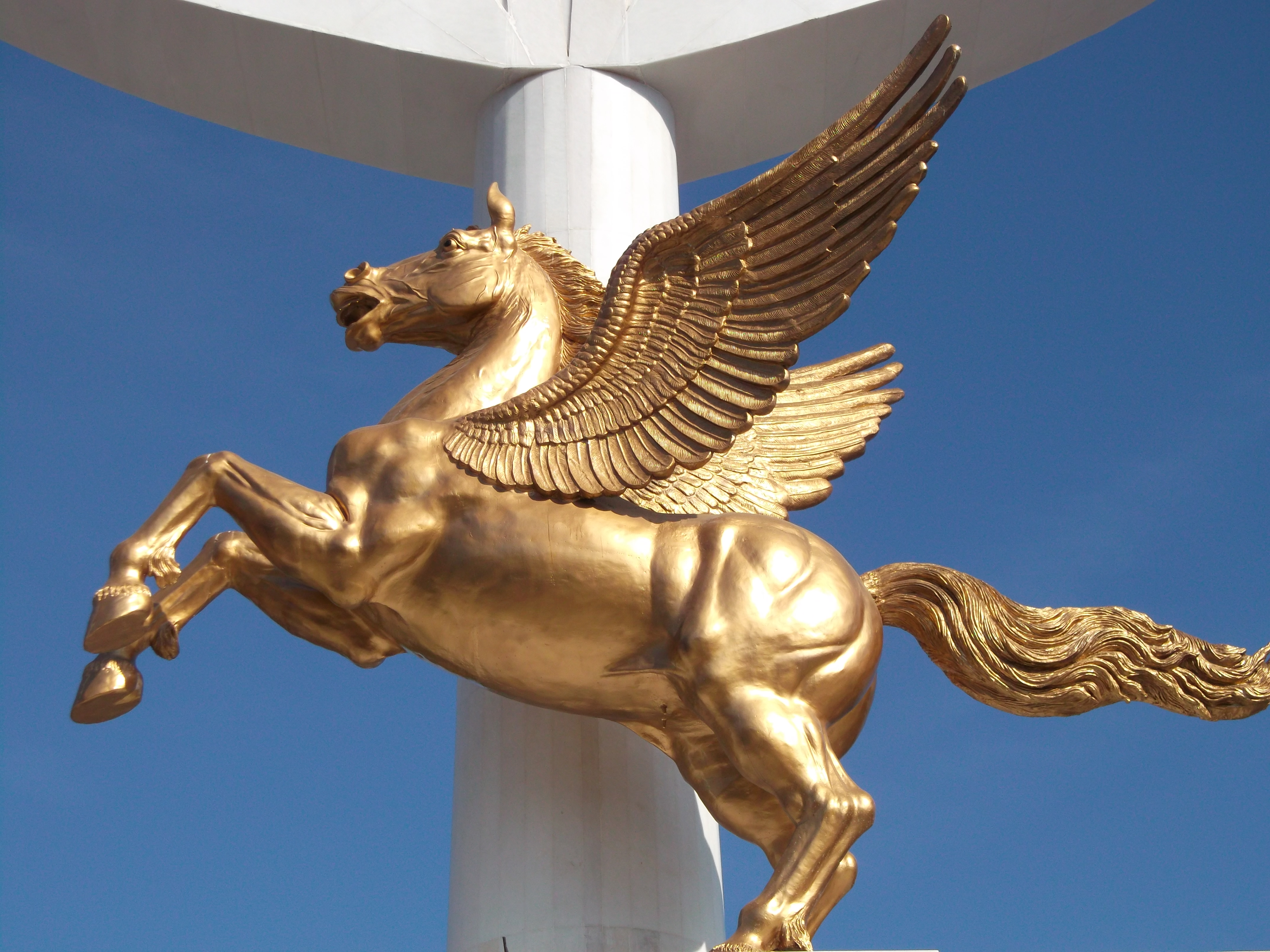 Chennai MGR Memorial, Pegasus closeup, taken on 2-Feb-2013 at around 4.00 pm